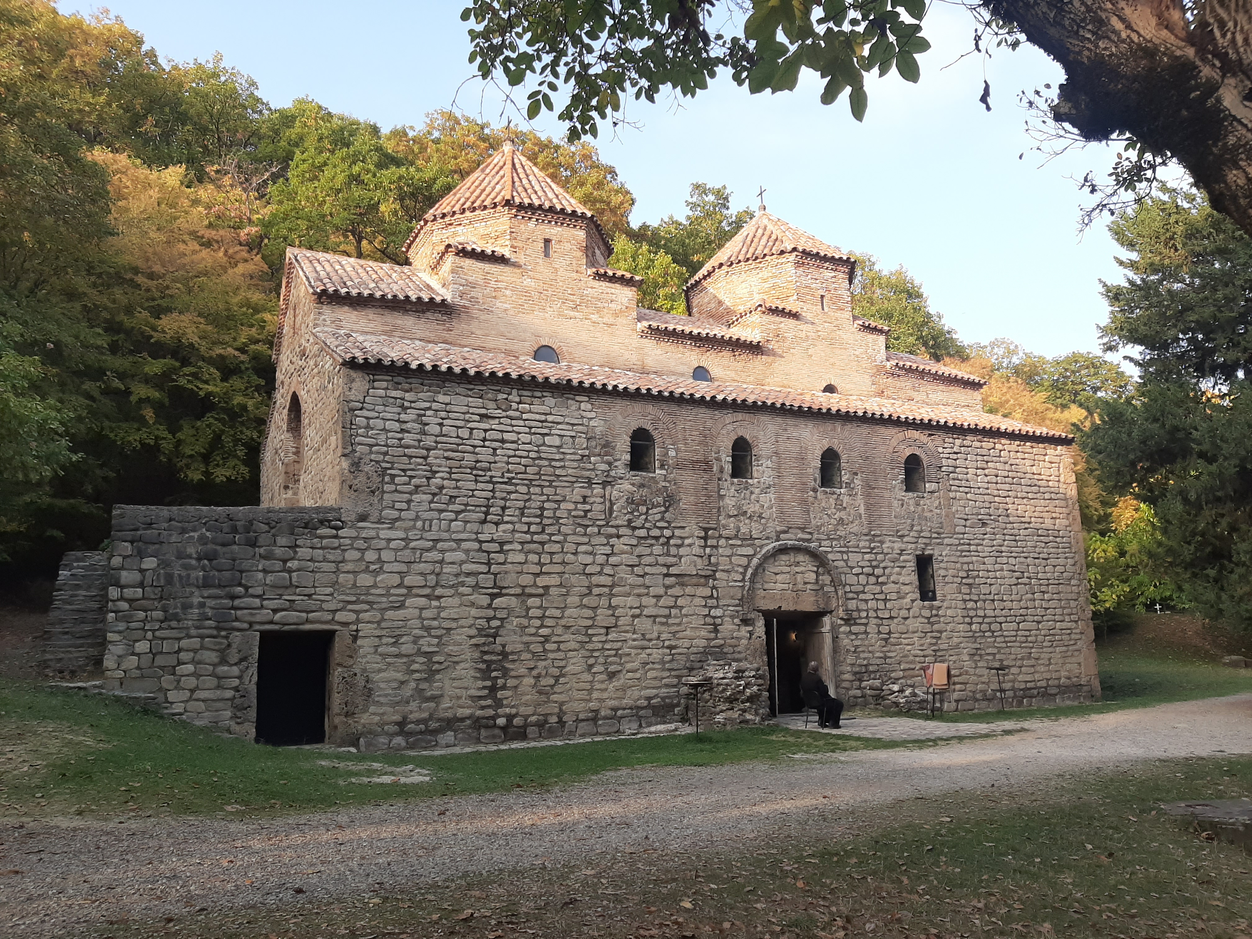 Gurjaani Kvelatsminda Church in the Fall, Kakheti, Georgia